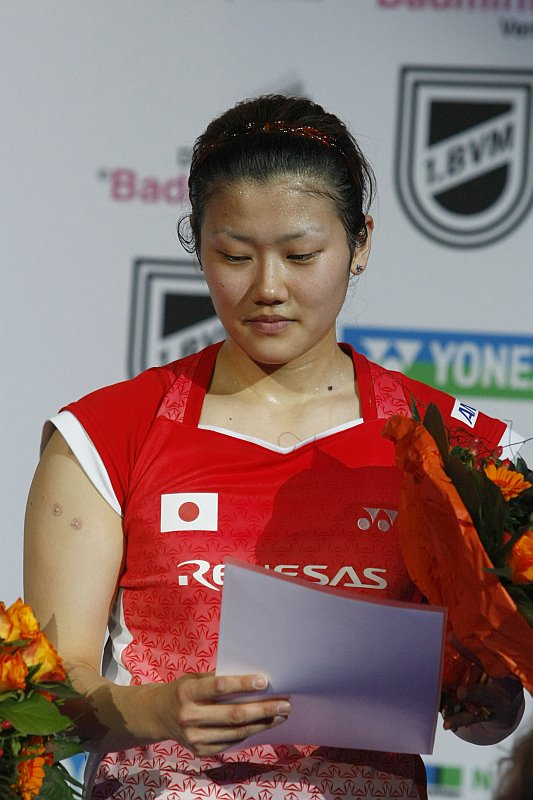 Reika Kakiiwa